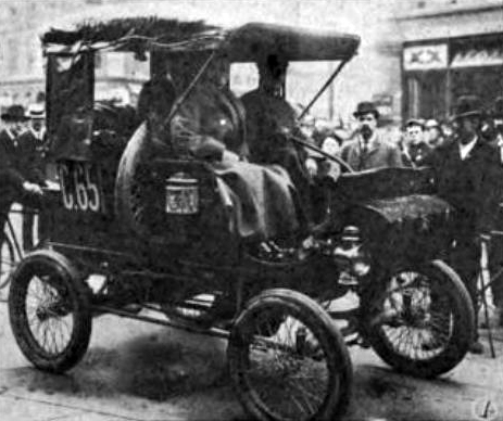 Century Steam Surrey - C. R. Woodlin and WIlliam Van Wagoner in 1901 in Syracuse, New York